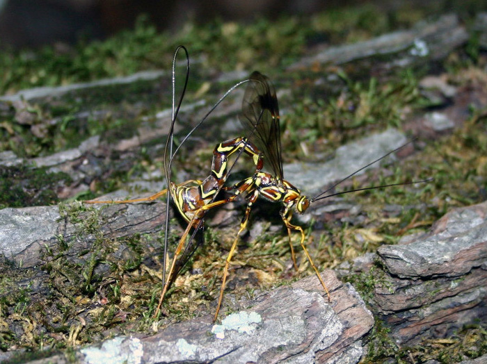 Female Megarhyssa laying eggs in a fallen tree on 23 May 2006 in Brentwood, Tennessee, United States of America. Photo taken by Allison Stillwell.